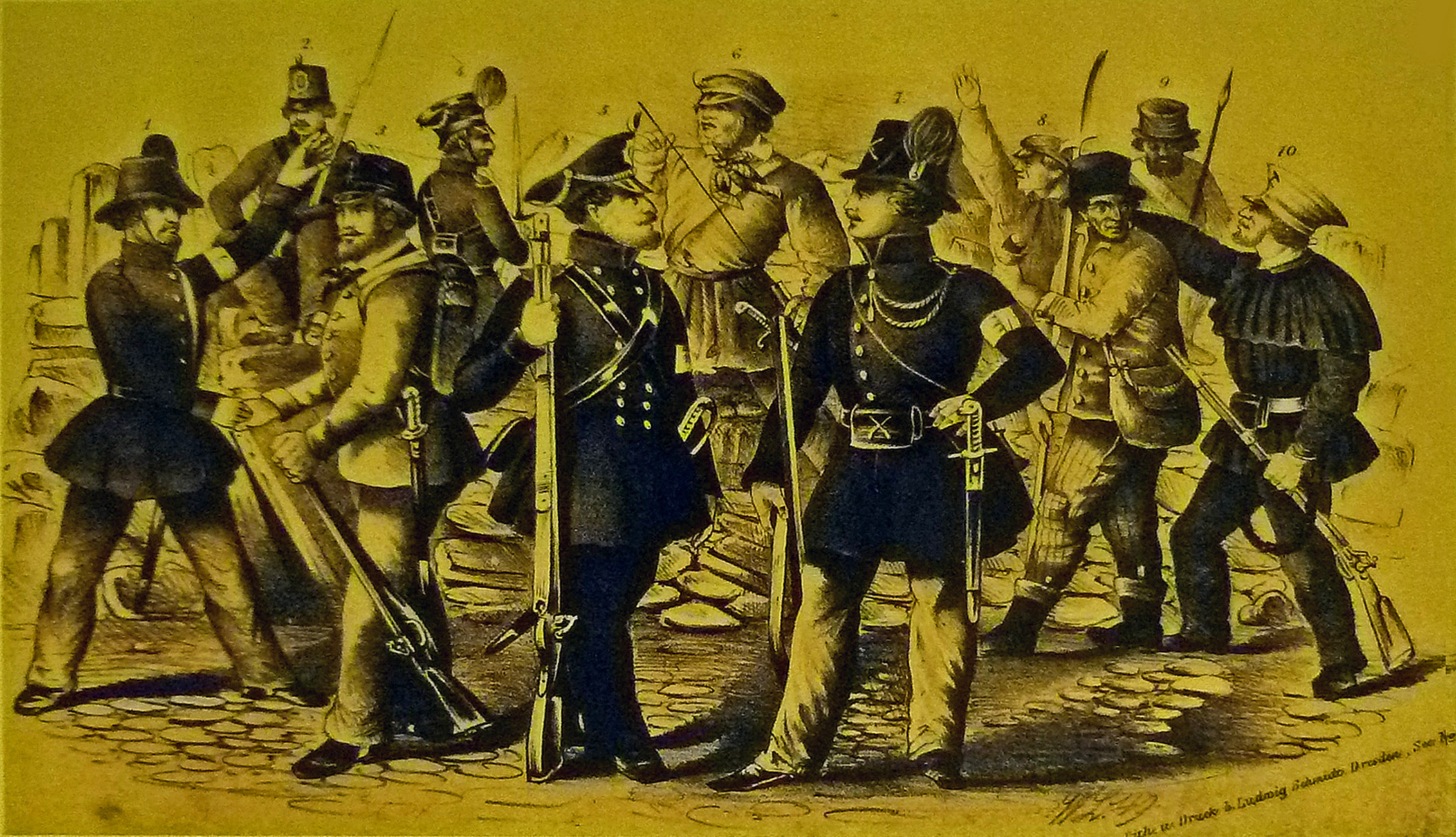 On the barricades in Dresden (1849); Historisches Museum Dresden, Foto Sächsische Landesbibliothek Abt. Deutsche Fotothek; Dresden, Germany